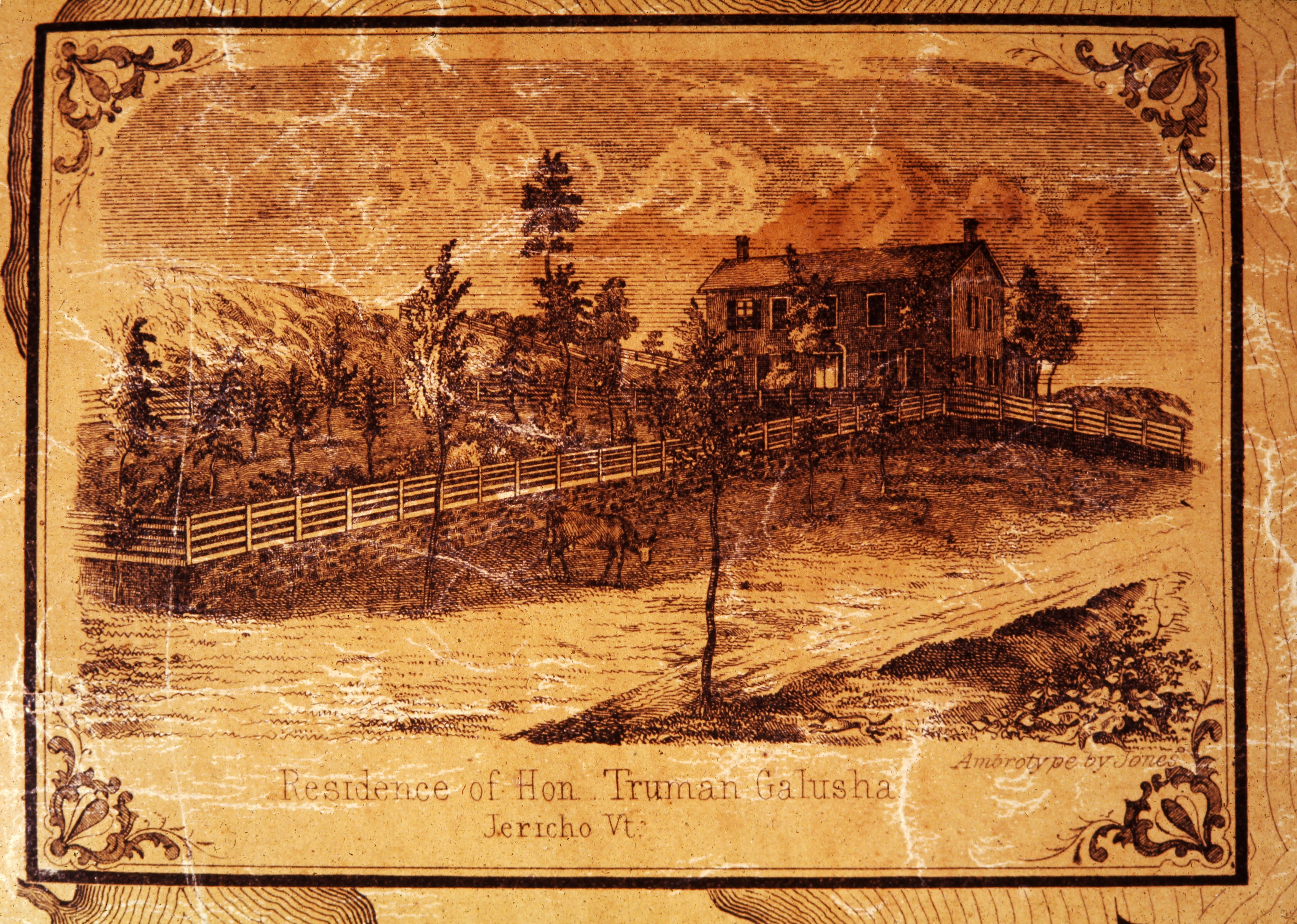 A photo I took, with permission, of a portion of a Wall Map of Chittenden County which is in the collection of the Jericho Historical Society